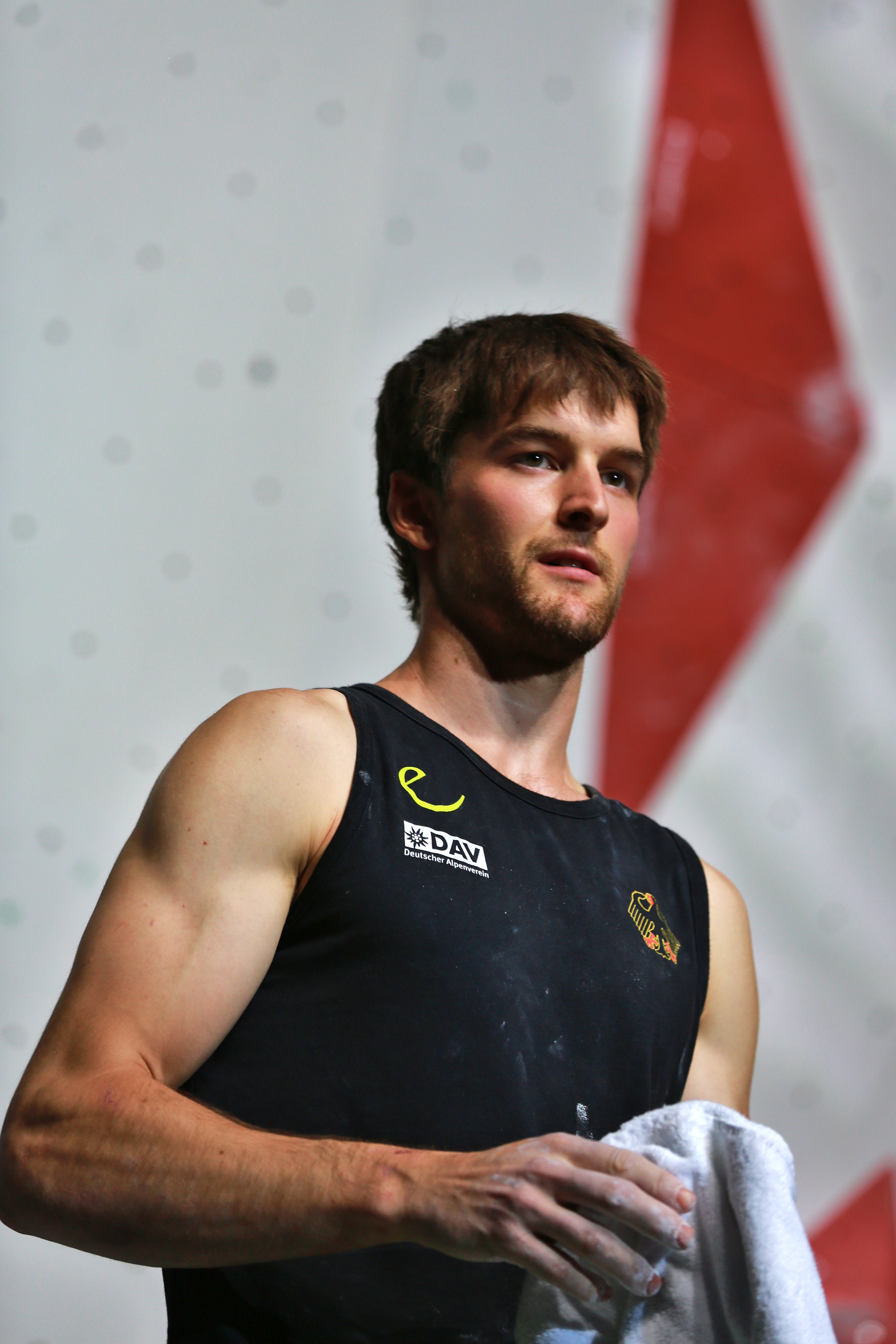 Climbing World Championships 2018 Combined Final Hojer